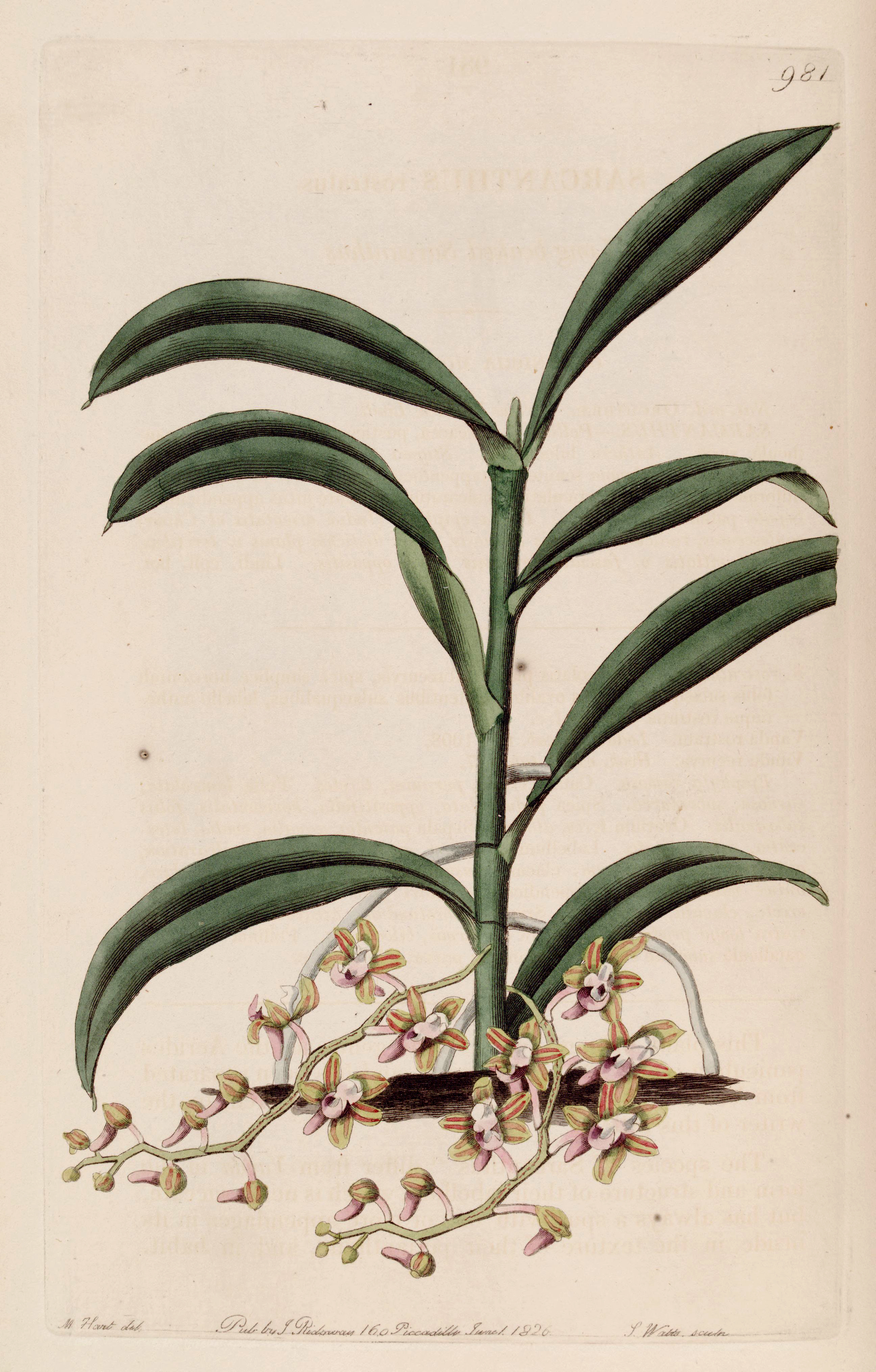 Illustration of Cleisostoma recurvum (as syn. Sarcanthus rostratus)